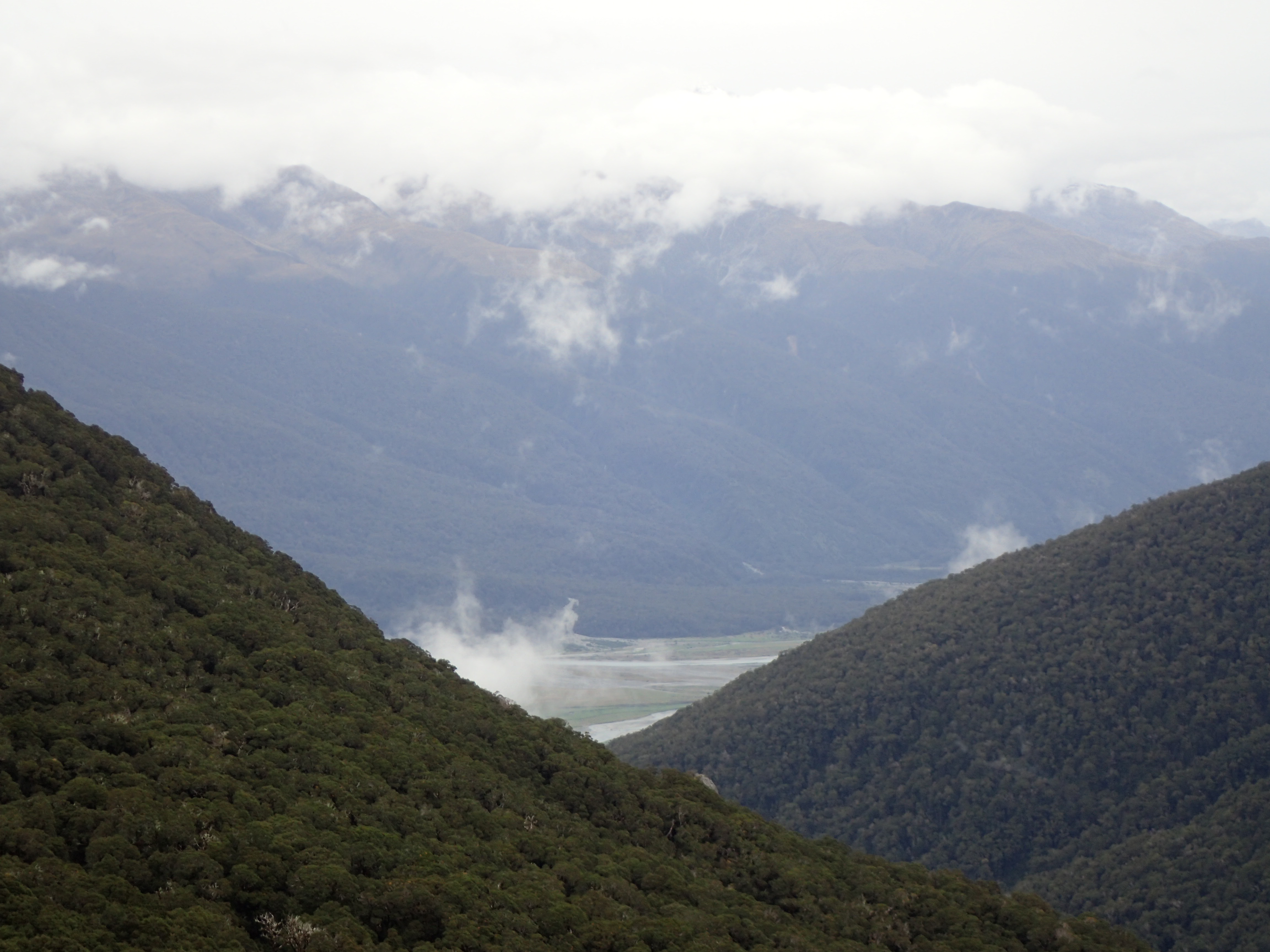 Landsborough_River_(Back)_Meets_Clarke_(foreground)_Westland_Aotearoa_New_Zealand